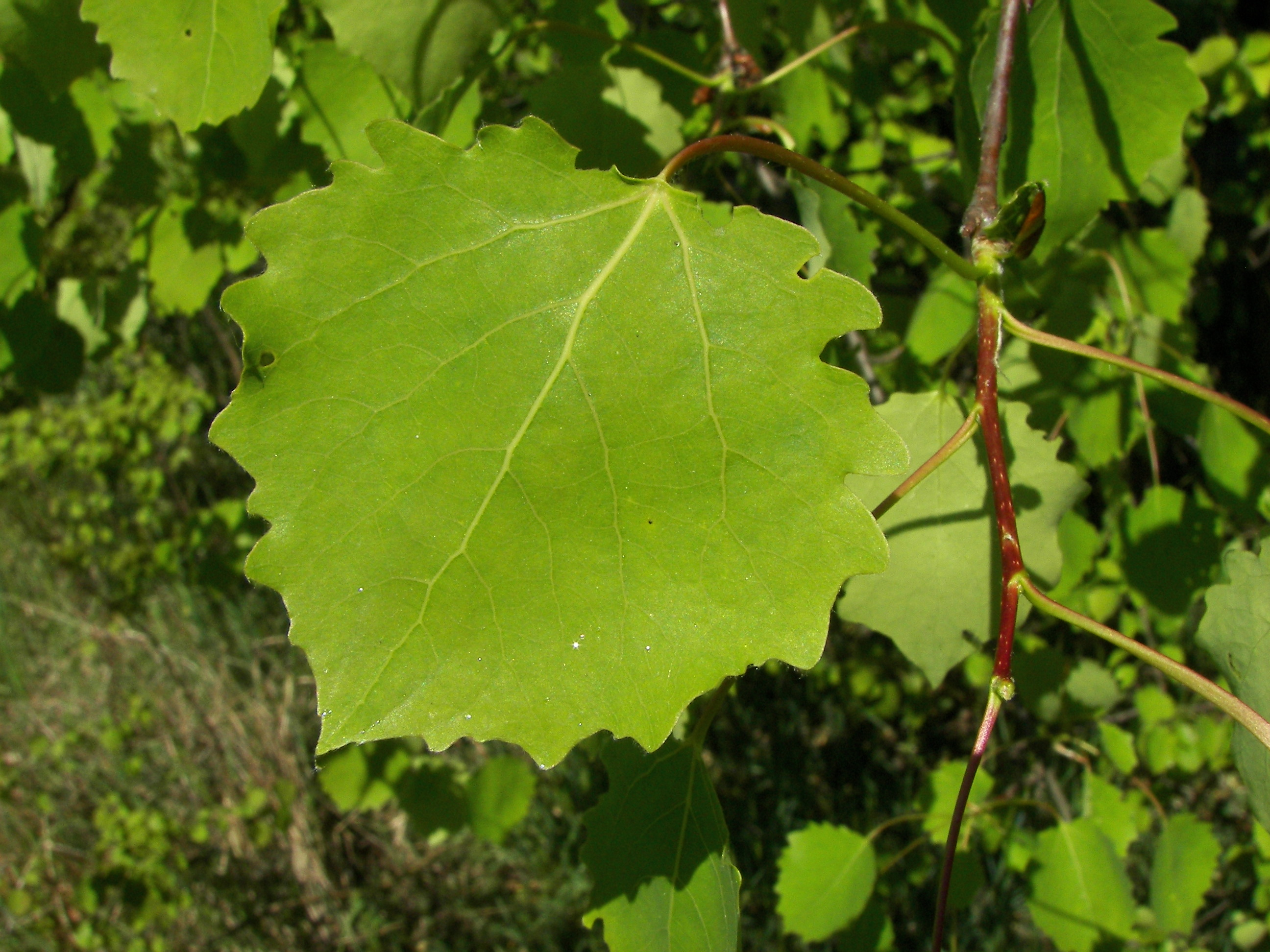 Aspen Leaves (Populus tremula) near Marburg, Hesse, Germany